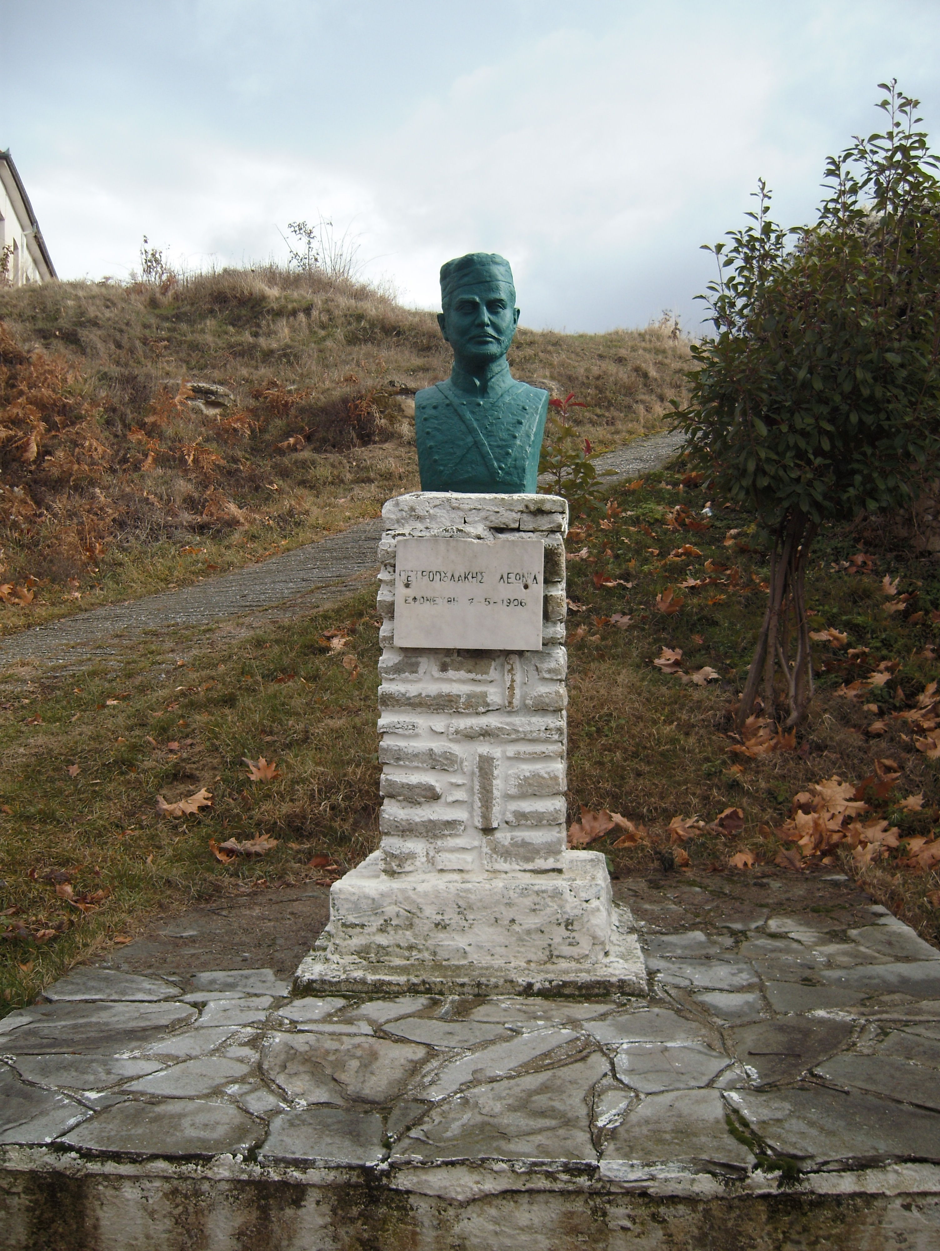 Mangila / Ano Perivoli